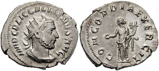 Gallienus. 253-268 AD. AR Antoninianus (3.05 gm). Struck 253-254 AD. Rome mint. IMP C P LIC GALLIENVS AVG, radiate and cuirassed bust right CONCORDIA EXERCIT, Concordia standing left, holding patera and double cornucopiae. RIC V pt. 1, 132, Göbl 15v; RSC 131a.